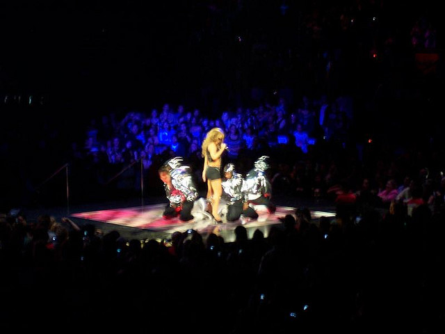 Mariah Carey performing her song "Fantasy" on her Adventures of Mimi Tour in 2006